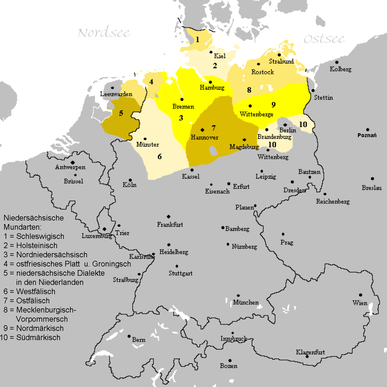 A map of Low German language with Low Franconian dialects excluded. The map shows the area of all Low Saxon dialects.